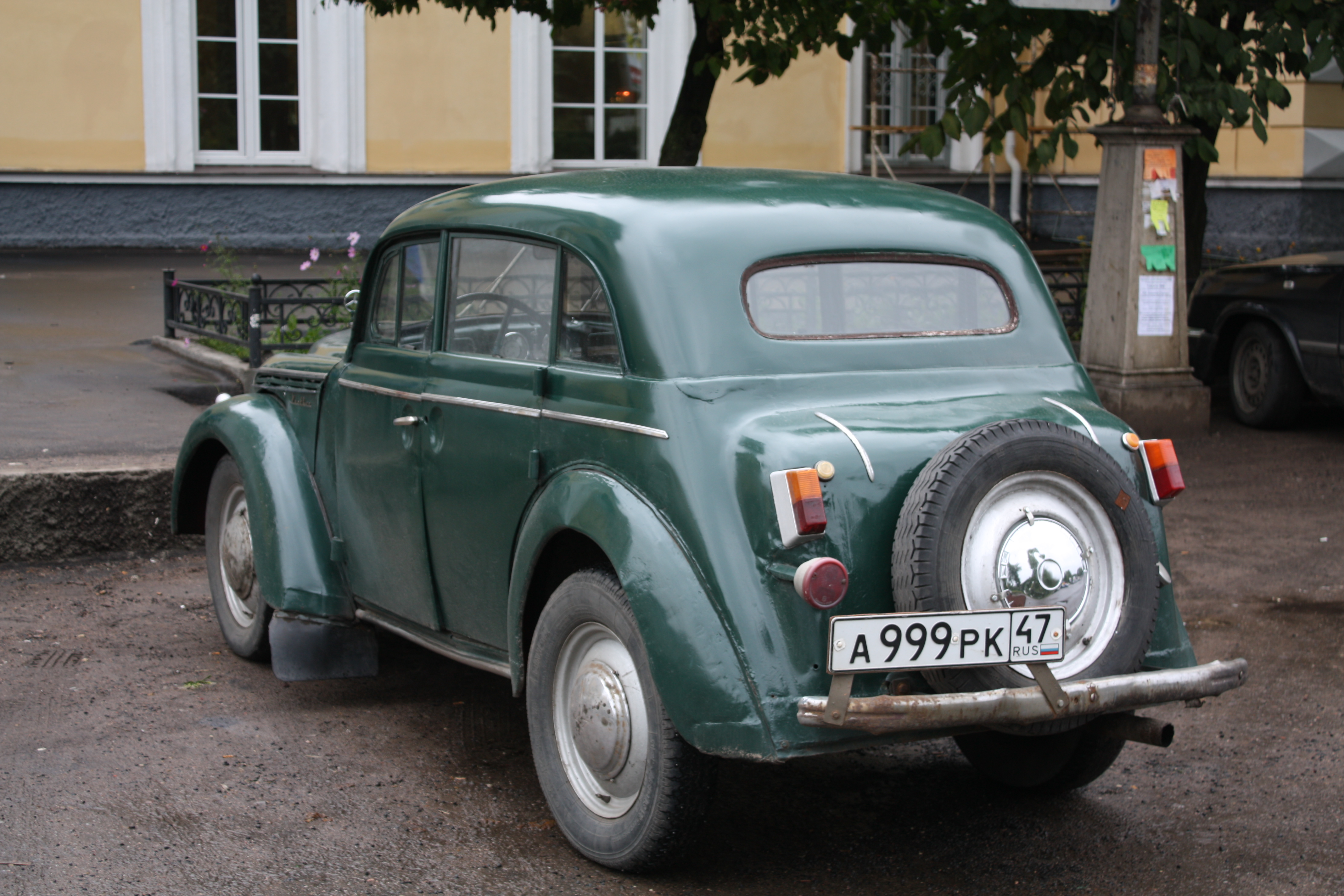 Moskvich 400 back view. Luga, Leningrad Oblast, Russia